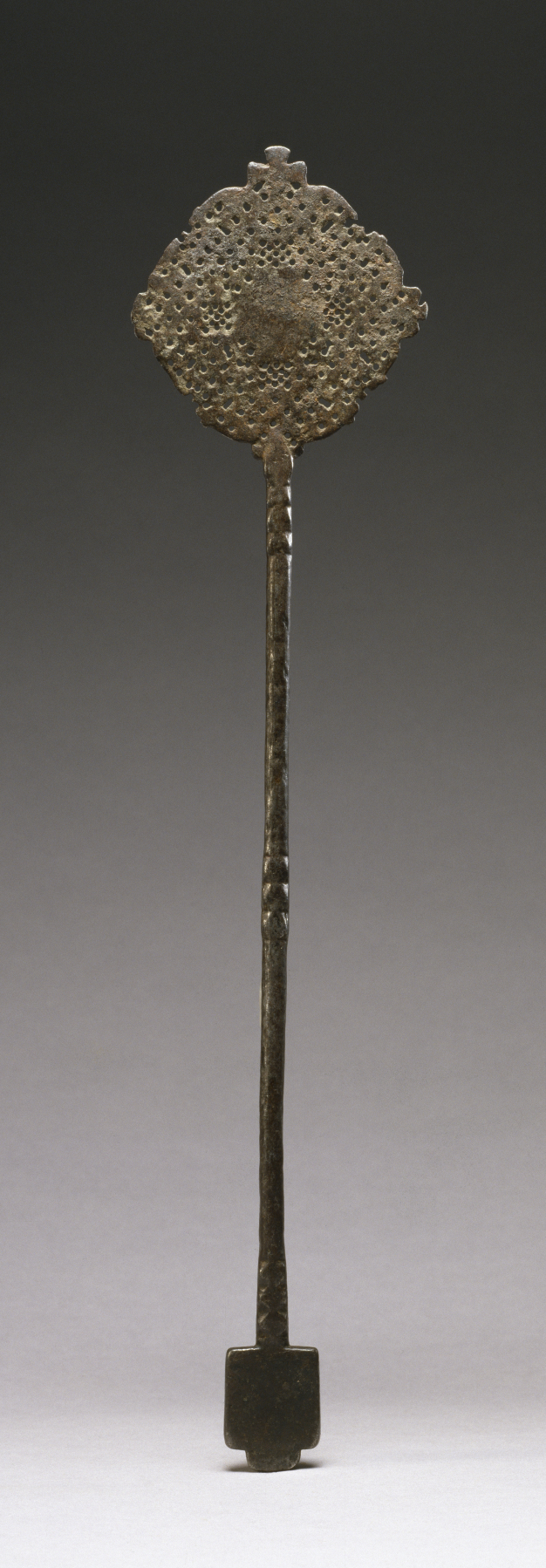 Ethiopian metal hand crosses are typically constructed from silver, brass, or iron that has been hammered into shape rather than cast using the lost-wax method. These objects draw their formal inspiration from processional crosses, and their creators often imitated styles that had been developed at great religious centers such as Lalibala. The formal relationship of the pierced hand cross to lattice work processional crosses is evident in the drilled holes of its body, an attempt to imitate the form of larger objects. Although their reliance on pre-existing models makes hand crosses difficult to date, these objects were an important means of transmitting local styles, particularly as they were designed to be portable.